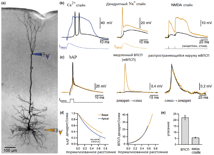 Phenomenology of dendritic spikes. Adapted and modified from "Synaptic clustering by dendritic signalling mechanisms" by Matthew E Larkum and Thomas Nevian